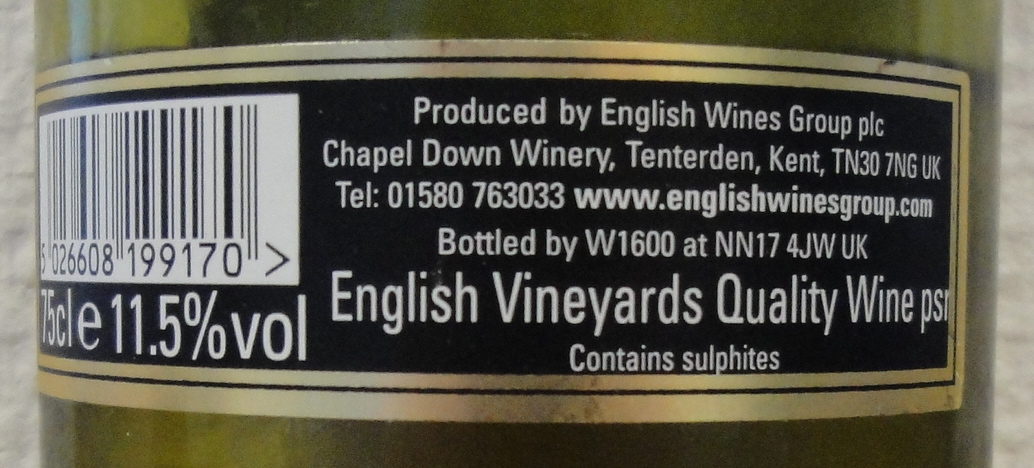 Back label of an English wine indicating its official quality designation, English Vineyards Quality Wine psr ("produced in [a] specificed region"). From a Chapel Down Flint Dry 2008.